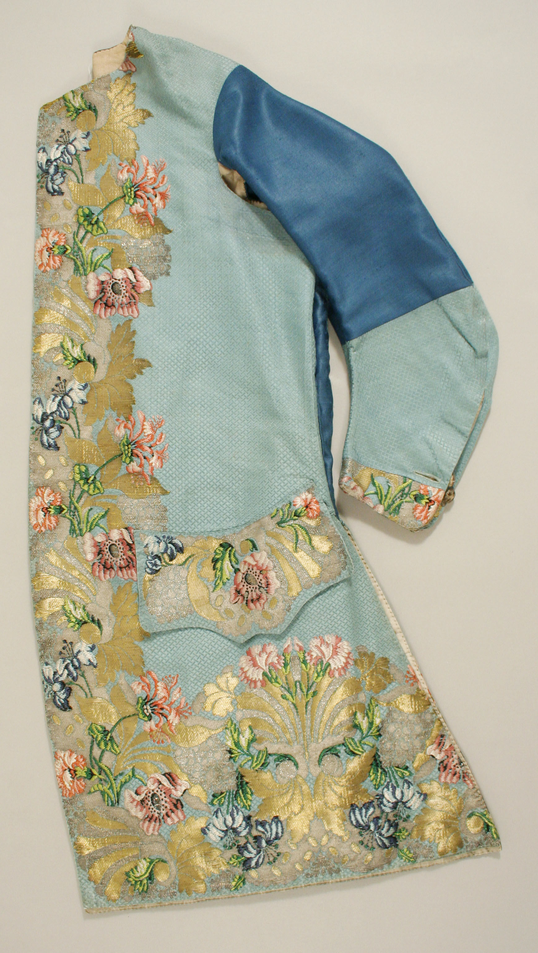 British; Waistcoat